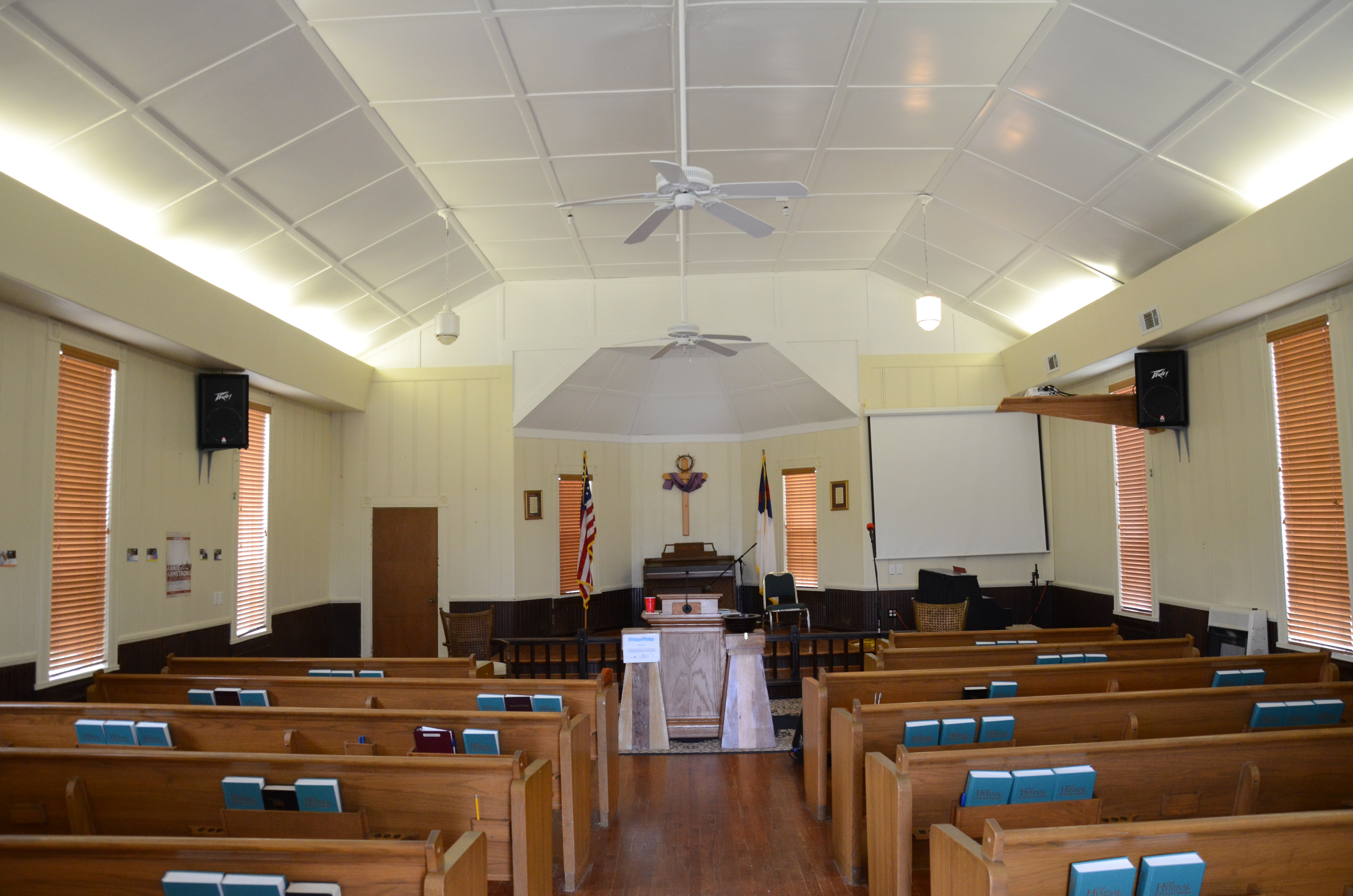 Council Grove Methodist Church The building was moved from its original location and now serves as the Osage Mills Baptist Church